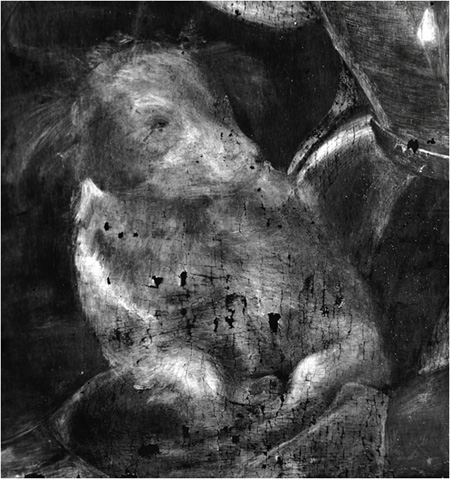 RAFFAELLO Sanzio Lady with a Unicorn Oil on wood, 65 x 51 cm Galleria Borghese, Rome